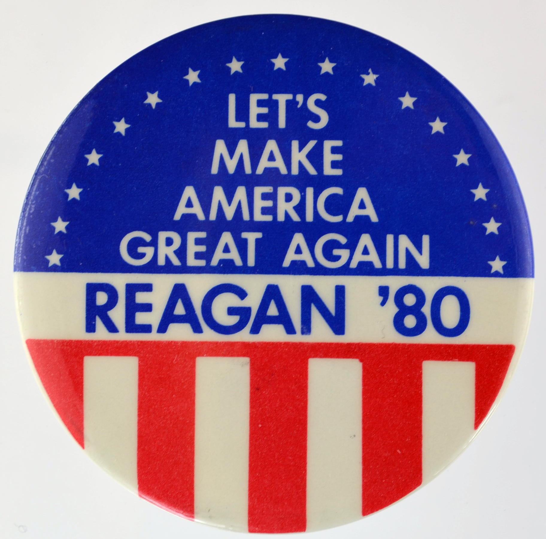 A button from Ronald Reagan's 1980 U.S. presidential campaign. It bears the slogan "Let's Make America Great Again" and also reads "Reagan '80".